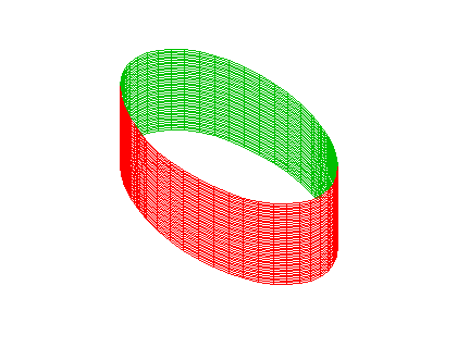 Drawing of a simple ring. By Toobaz ( For more information on how it was drawn